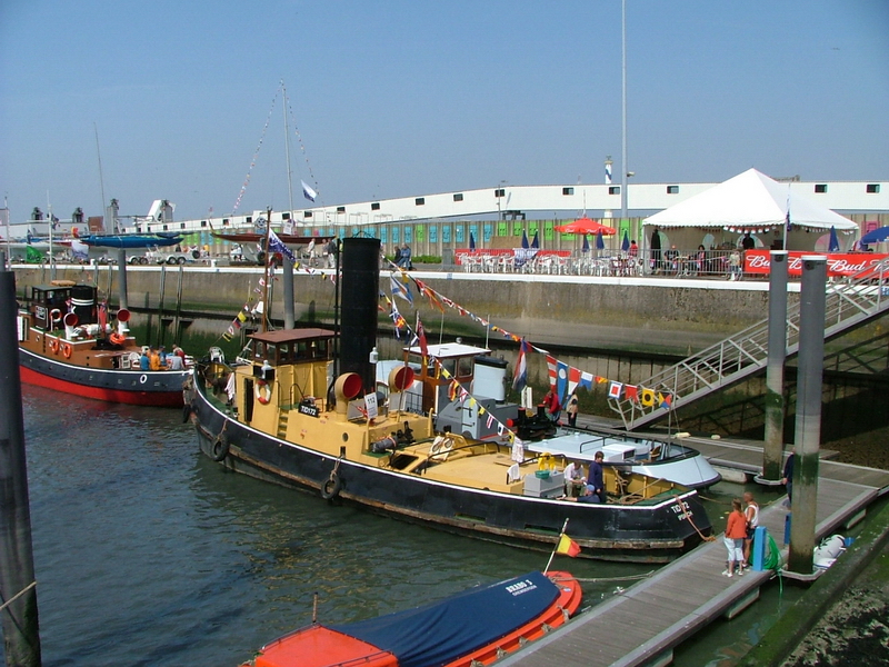 TID class tug TID172 at Ostend